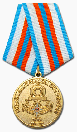 Russian Federation, Ministry for Emergency Situations (EMERCOM)